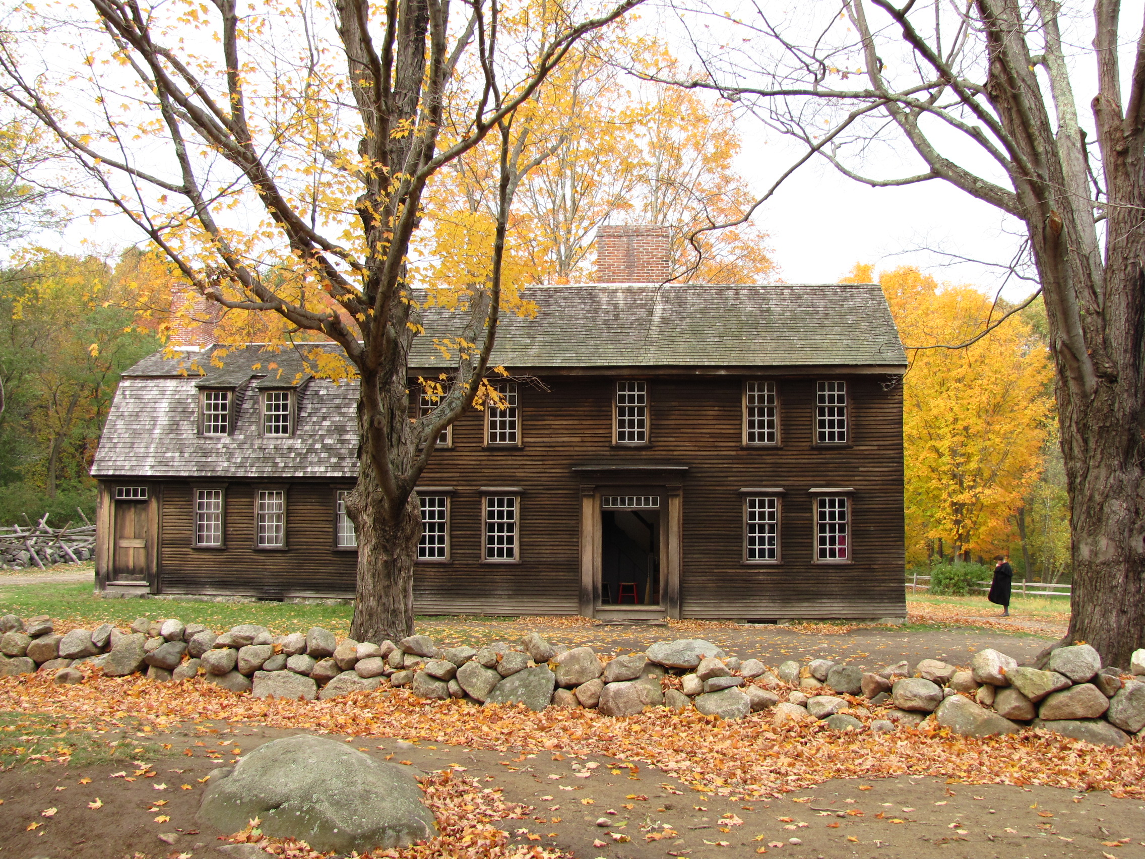 Hartwell Tavern in October, Lincoln Massachusetts